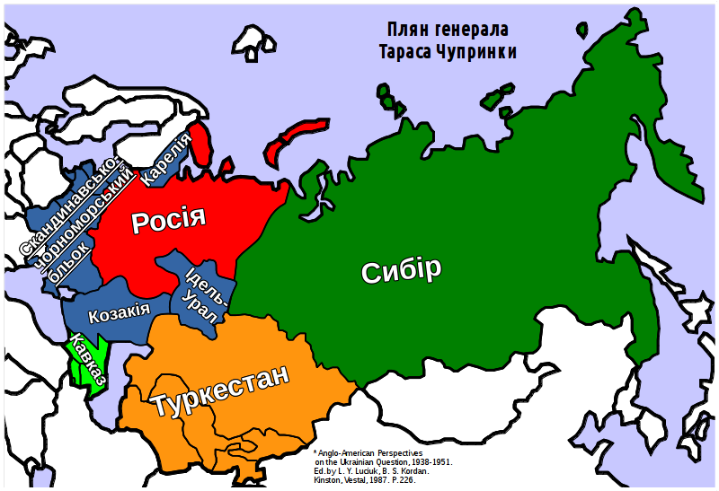 A plan for the dissolution of the USSR attributed to Roman Shukhevych, as mentioned in papers of the British Foreign Office, March 1949. "The most recent excursion into this field is a plan attributed to 'General' Taras Chuprynka, reported to be the chief of the Ukrainian Liberation Army (UPA) whose activities constitute the only reasonably well attested indications of armed revolt in the Soviet sphere of influence. The General's plan envisages the division of the USSR into four distinct regions: 1) Siberia; 2) the Caucasus; 3) Turkestan; 4) the "Scandinavian-Black Sea Unit." It is this last-named division which contains the Ukraine proper, the other components being "a free Karelia", the Baltic States, White Ruthenia (Belorussia), "Kozakia" and "Is-ed-Ural" (sic)." Anglo-American Perspectives on the Ukrainian Question, 1938-1951. Ed. by L. Y. Luciuk, B. S. Kordan. Kinston, Vestal, 1987. P. 226.